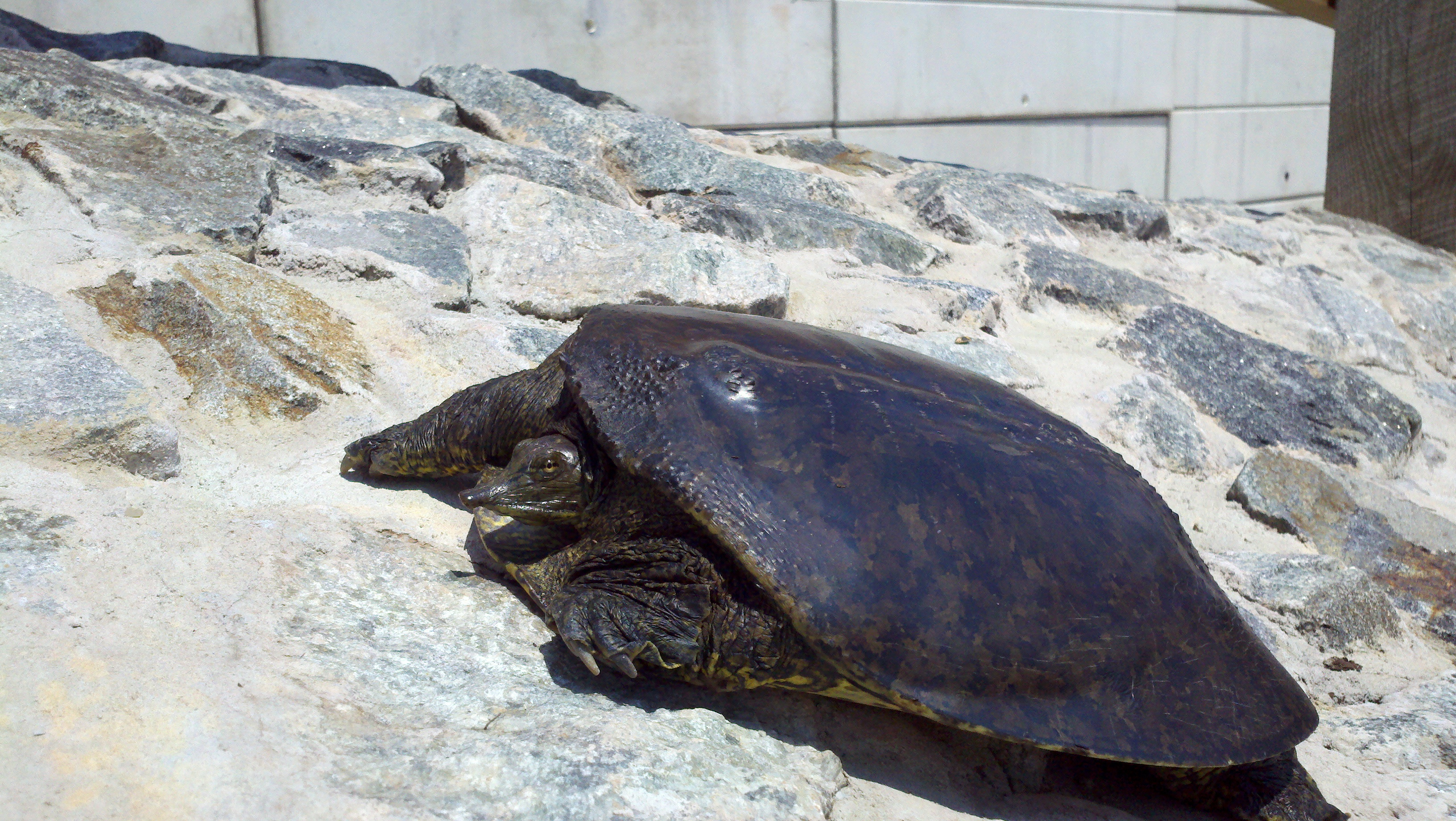 A Spiny Soft shell Turtle relaxing in the sun near Dundee Dam, New Jersey.